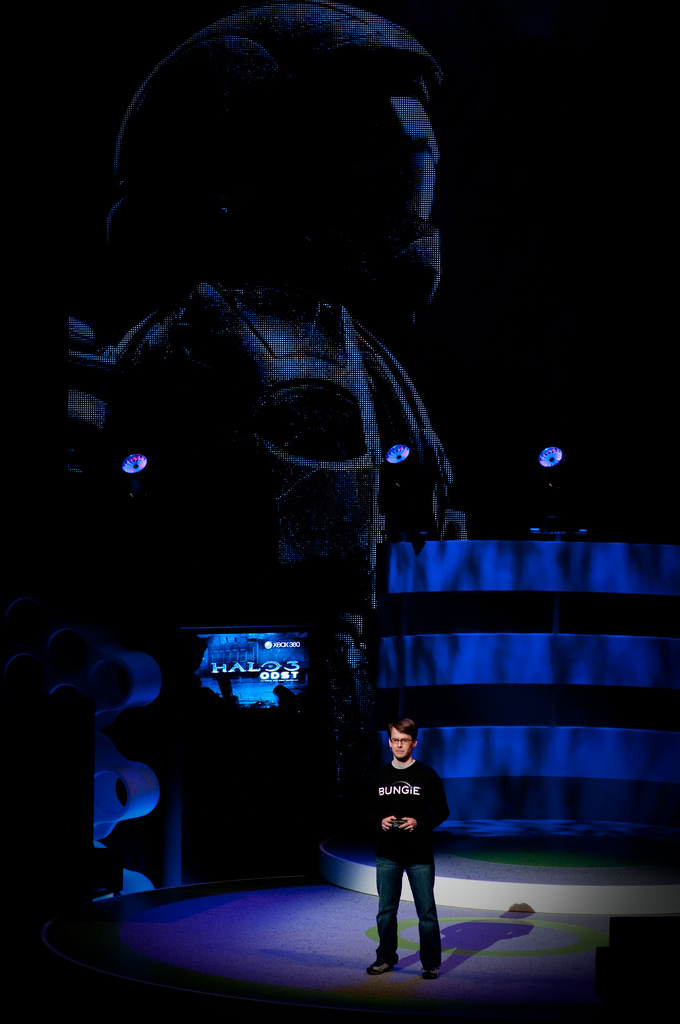 Joseph Staten of game developer Bungie presents Halo 3: ODST at the 2009 E3 Xbox 360 Media Briefing.